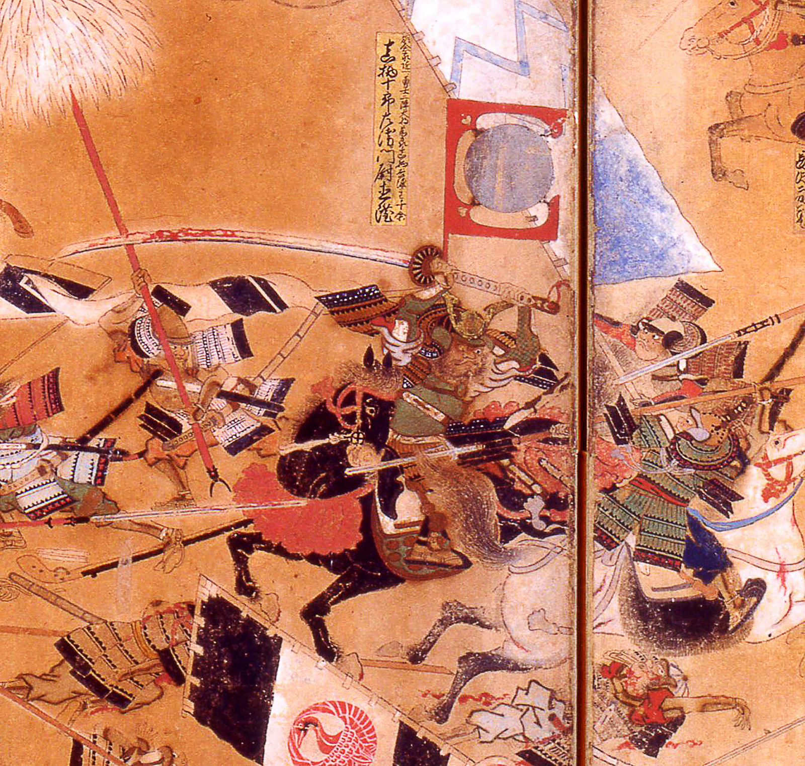 A samurai warrior who handles a large Ōdachi sword on a horse. This is part of the Battle of Anegawa screen.